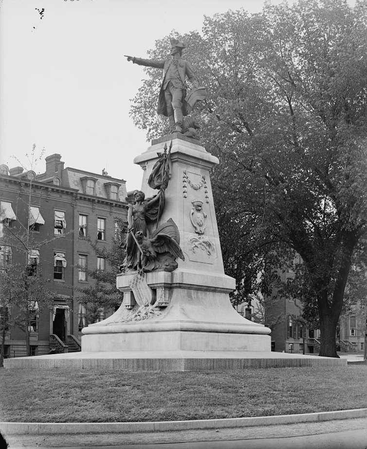 [Rochambeau statue, Lafayette Park (Square), Washington, D.C.] .